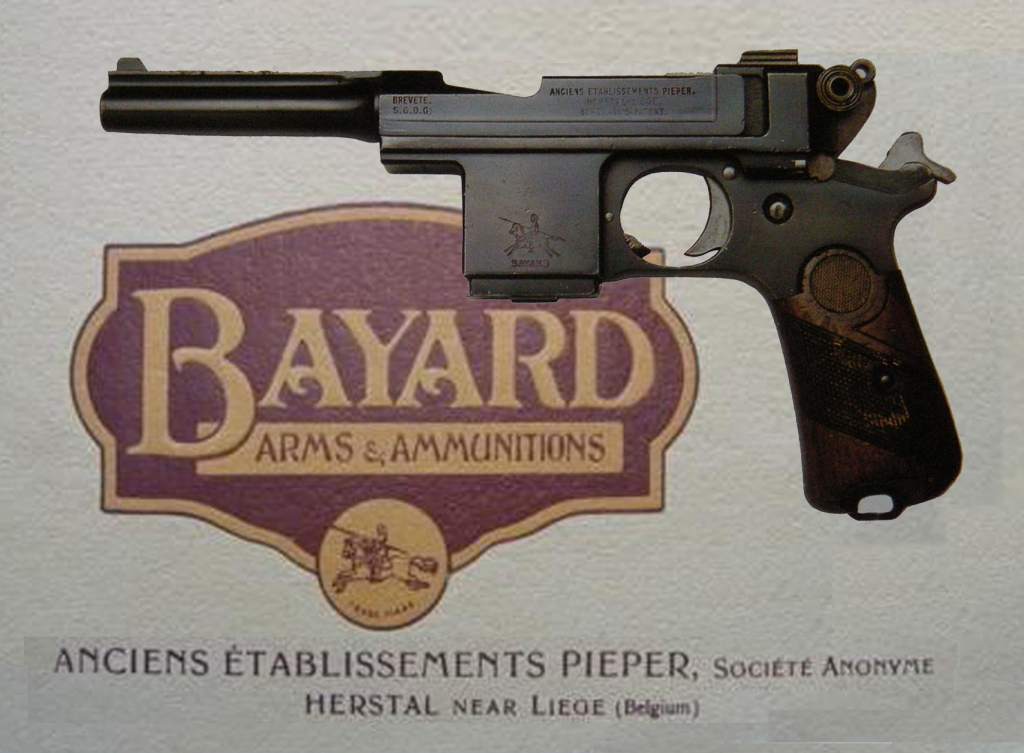 Pistol Bergmann-Bayard